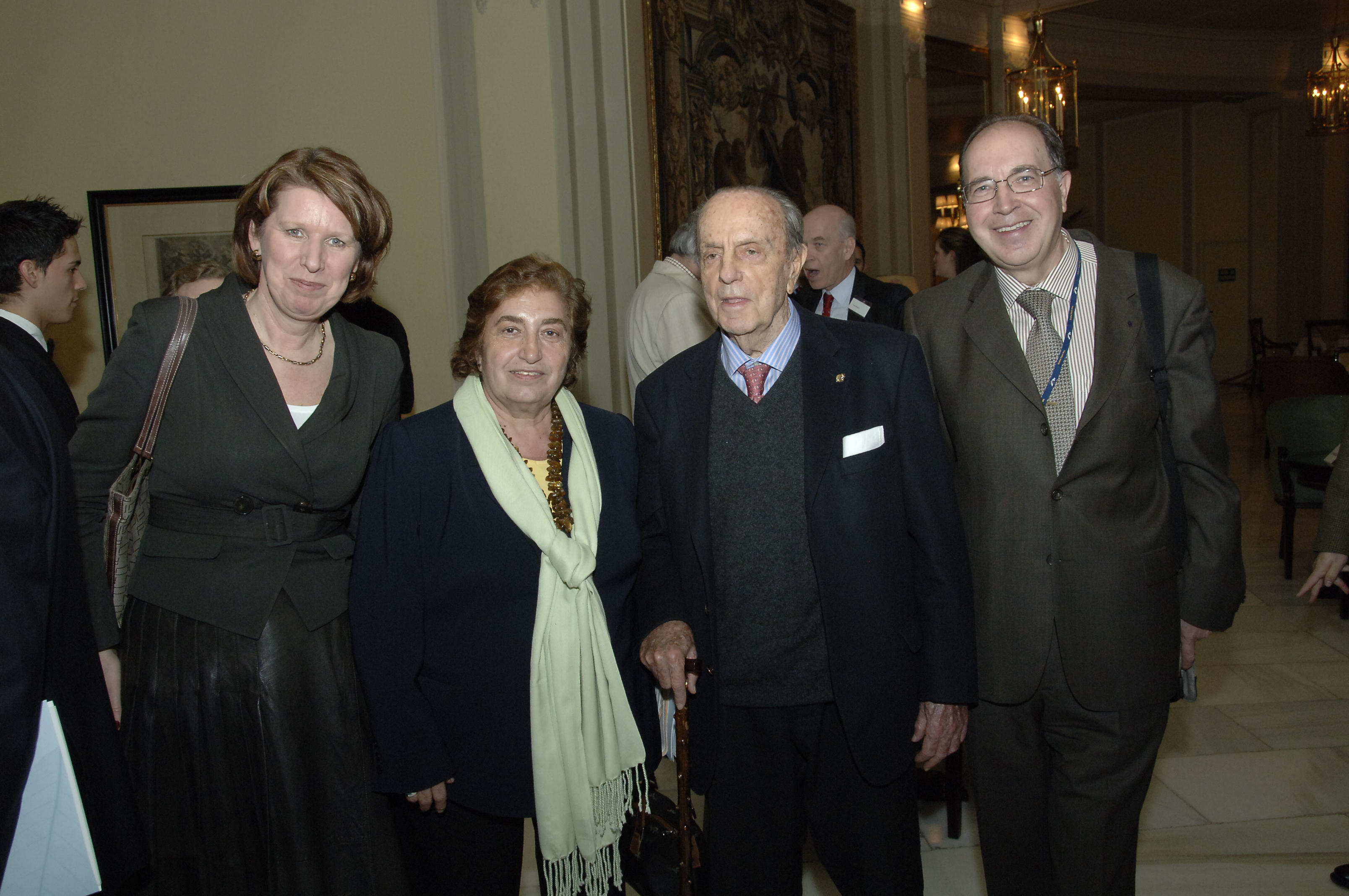 EPP CONVENTION ON CLIMATE CHANGE IN MADRID (6-7 FEBRUARY 2008)